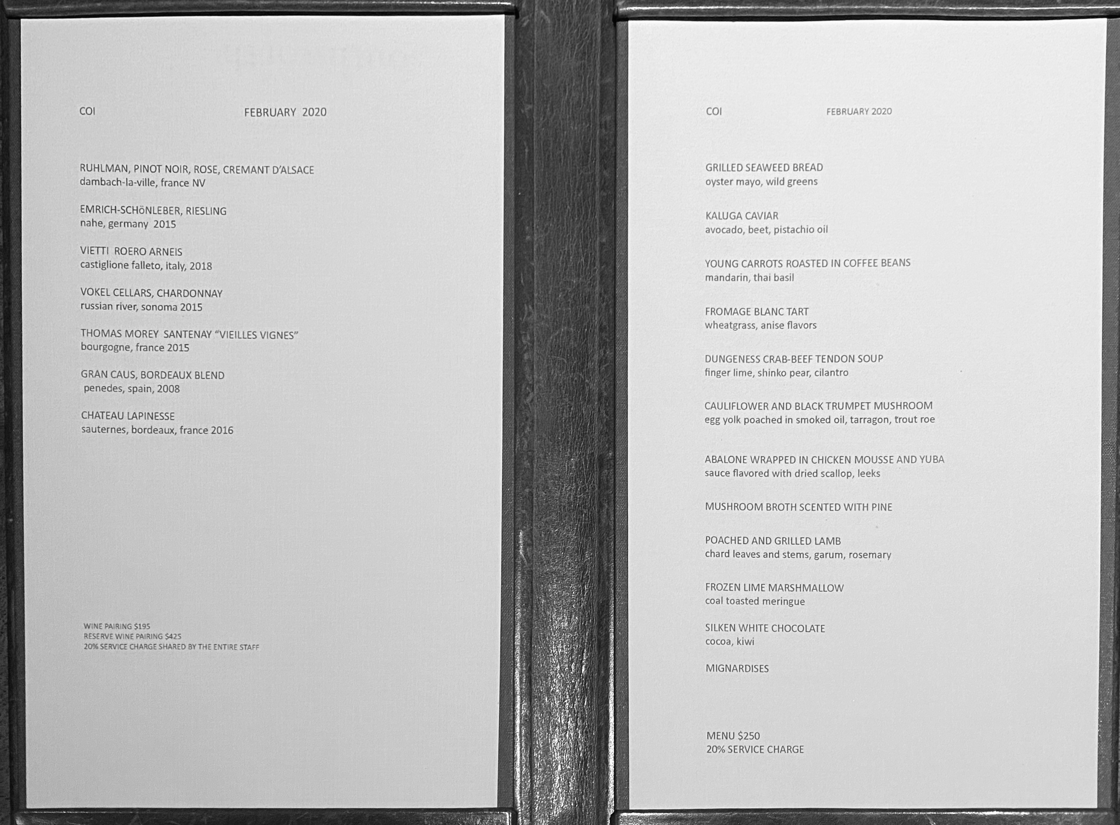 COI menu February 2020: Grilled seaweed bread Kluge caviar Young carrots roasted in coffee beans Fromage blanc tart Dungeness crab-beed tendon soup Caulifrlower and poached egg Abalone wrapped in chicken mousse Mushroom broth scented with pine Poached and grilled lamb Frozen lime marshmallow “kissed by a coal” Silken white chocolate Beet-flavored candy mignardises